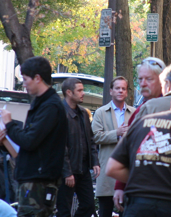 Jack Bauer (Kiefer Sutherland) and Tony Almeida (Carlos Bernard) in Georgetown, Washington, D.C. for filming of 24 in October 2007